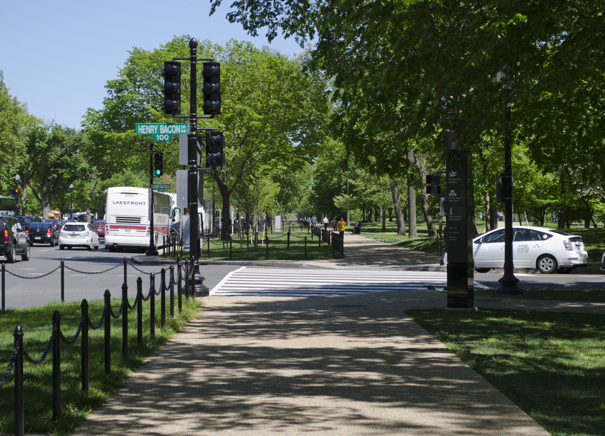 Looking east down Constitution Avenue NW in Washington, D.C., in the United States. Henry Bacon Drive is entering from the right. When Constitution Avenue NW was constructed west of this point, it was only 72 feet wide. The shift in the avenue's width can be see in the sudden shift in the sidewalk to the east. Constitution Avenue NW existed only between 3rd and 15th Streets NW from the city's inception in 1791 to 1871. Between 1871 and 1873, the city covered over the Tiber Creek estuary and built the street on top of it west to Virginia Avenue NW. Between 1881 and 1890, the city dredged the Potomac River and reclaimed the land that now constitutes West Potomac Park (for use as a levee). Constitution Avenue NW was then extended through the park to 23rd Street NW. When Arlington Memorial Bridge was authorized for construction in 1926, Congress ordered that "B Street" be extended to the Potomac River and widened into a ceremonial gateway for the city. In 1931, Congress changed the name of "B Street" to Constitution Avenue. A granite terrace and small traffic circle was constructed on the shores of the Potomac to form the western terminus of the street. In the 1950s, Congress authorized construction of the Theodore Roosevelt Memorial Bridge, and ordered that the bridge connect with Interestate-66 (then being built from the east toward the city). Constitution Avenue NW was torn up and the area restored to parkland west of 23rd Street NW. Raised on-ramps and off-ramps were built through the area to connect the avenue to the bridge. The terrace and traffic circle were not destroyed, however. In 1901, the Senate Parks Commission produced a master plan (the "McMillan Plan") to beautify the National Mall area in Washington, D.C. Among its requirements was that sidewalks on the Mall be lined with double-rows of American elms and beeches. Although the sidewalks were removed when Constitution Avenue was torn up in the 1950s, some of the double-rows of trees survived.